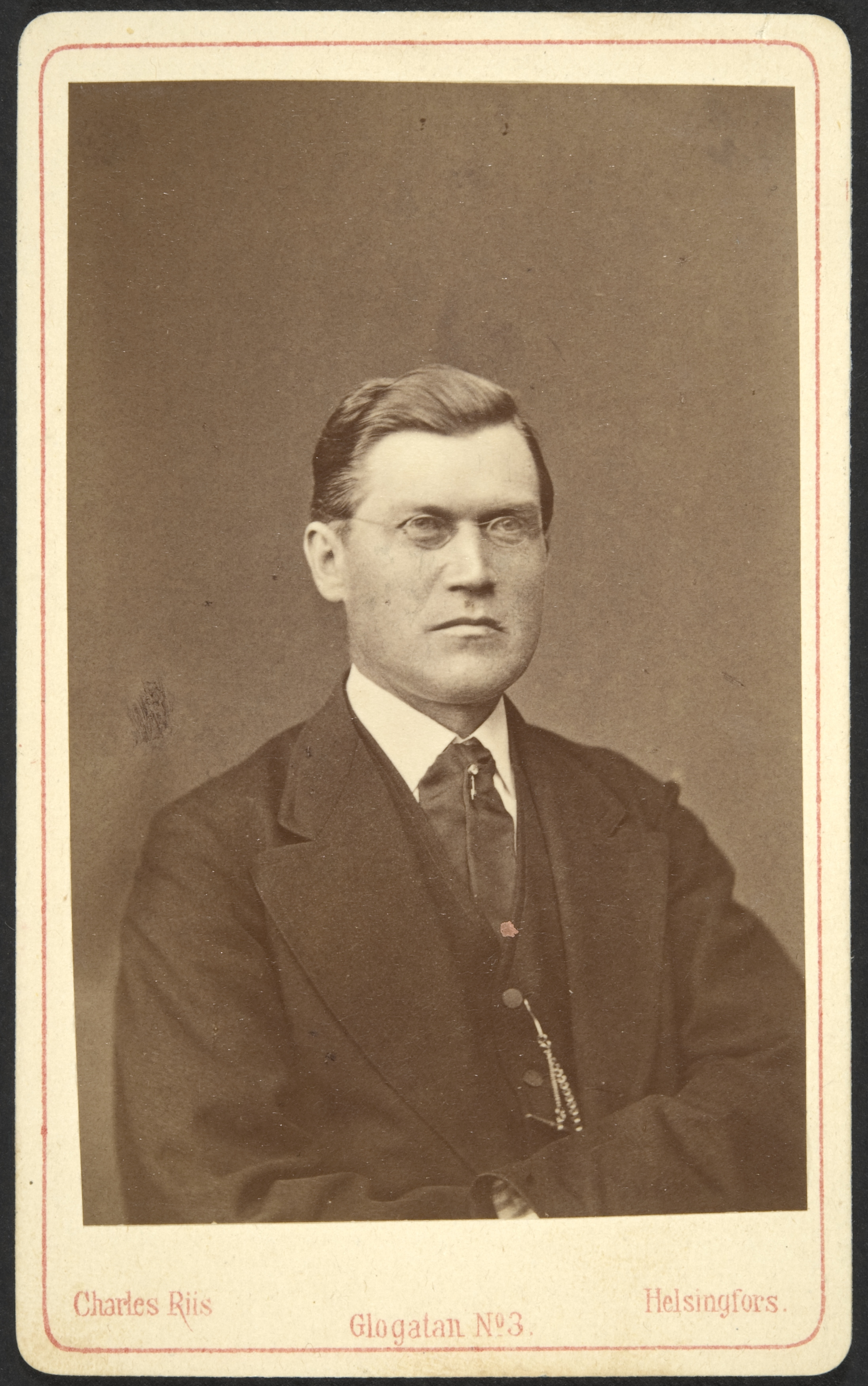 Photograph of the Finnish psychiatrist and botanist Anders Thiodolf Saelan (1834–1921).